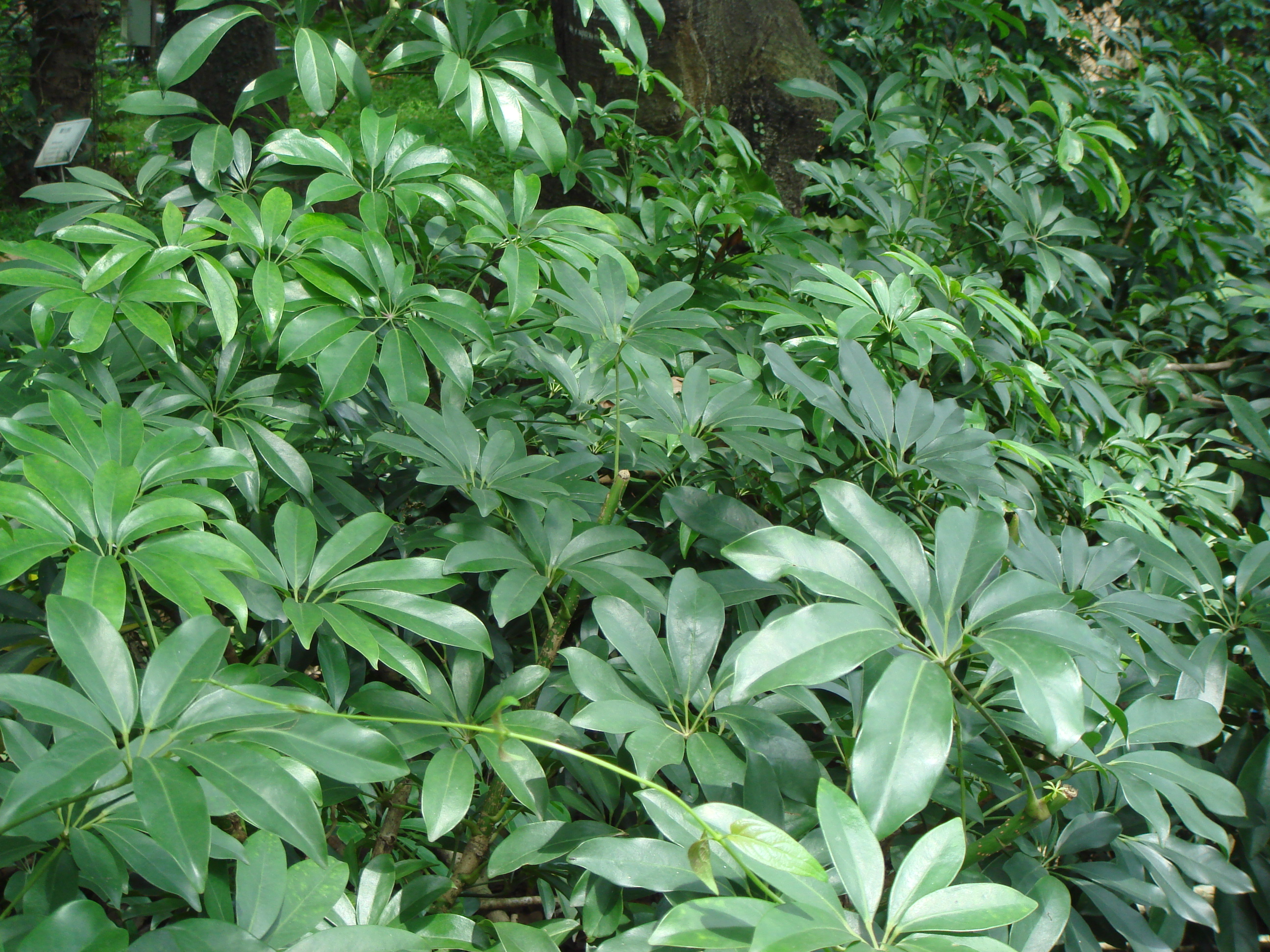 A photo of Schefflera arboricola, in Taipei botanic garden. Own work.